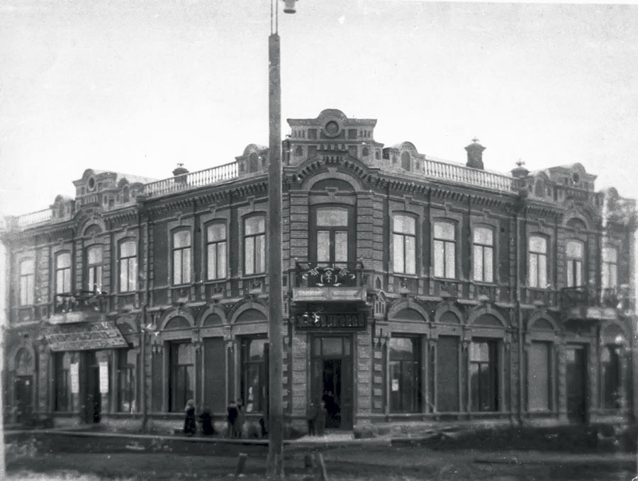 Kryukov House on the corner of Kabinetskaya and Tobizenovskaya streets in Novonikolayevsk (current Novosibirsk).